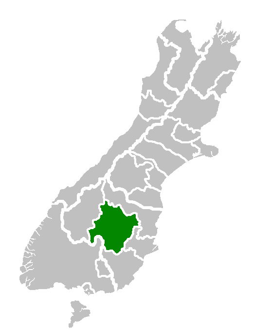 Location of Central Otago District.